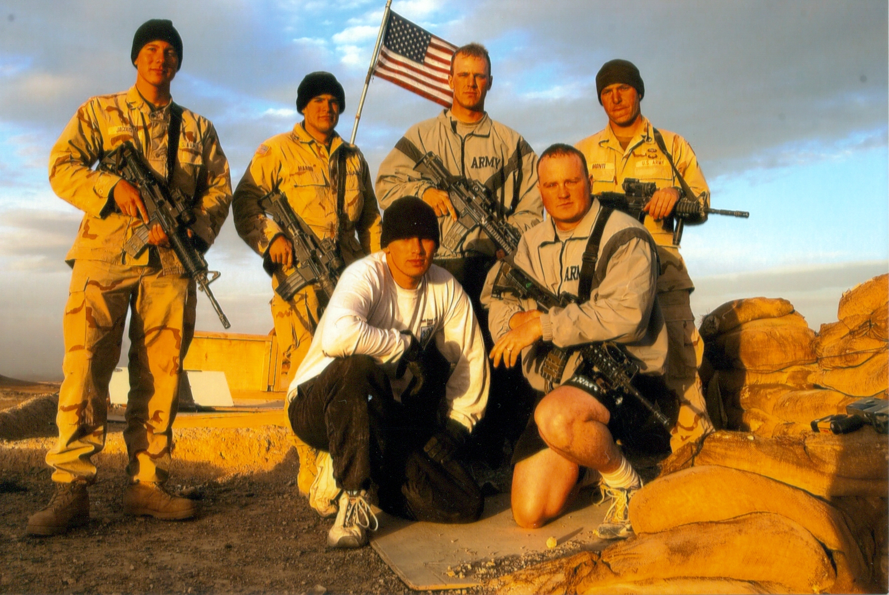 A personal photo of Sergeant 1st Class Jared C. Monti, the first Soldier recipient for actions in Afghanistan/Operation Enduring Freedom. To learn more, visit